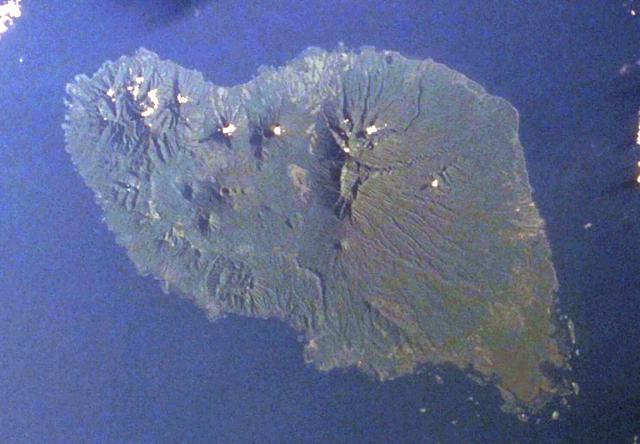 The 50-km-long island of Umboi Island, the largest of the volcanic islands off the north coast of New Guinea, is seen in this Space Shuttle image with north to the upper right. A large 13 x 17 km caldera cuts the northern half of the island and is widely breached to the NE (top-center). Three youthful post-caldera cones with summit crater lakes (left-center) are visible rising above the smooth-surfaced caldera floor. The large eroded massif at the right-center is an older volcanic complex, as is the dissected northern tip of the island (upper left). Papua New Guinea